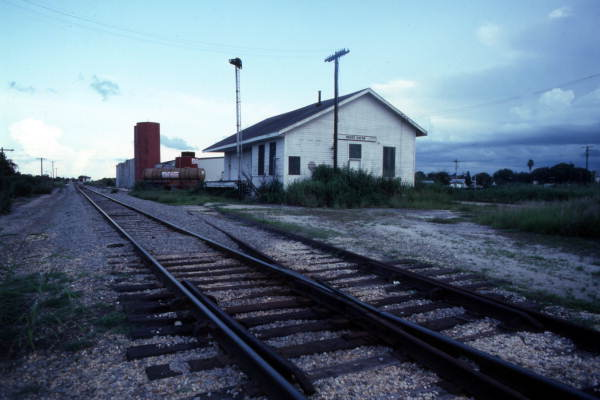 Moore Haven Atlantic Coast Line Railroad Depot